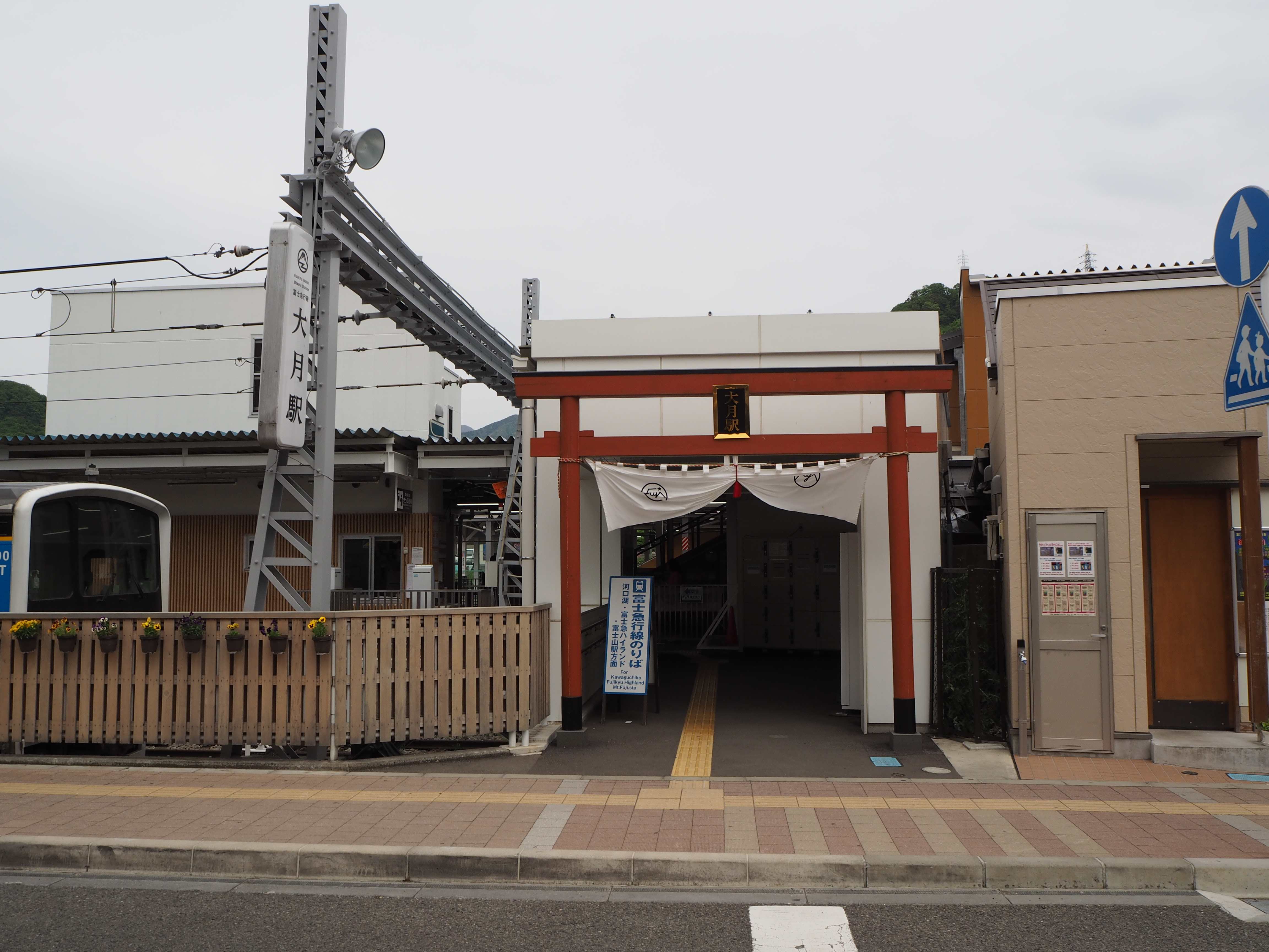 Ōtsuki Station(Fujikyu)